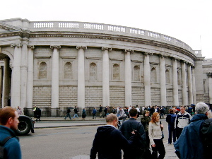 Image of 'screen wall' on old Irish Houses of Parliament; now Bank of Ireland, College Green branch - my image no c/r